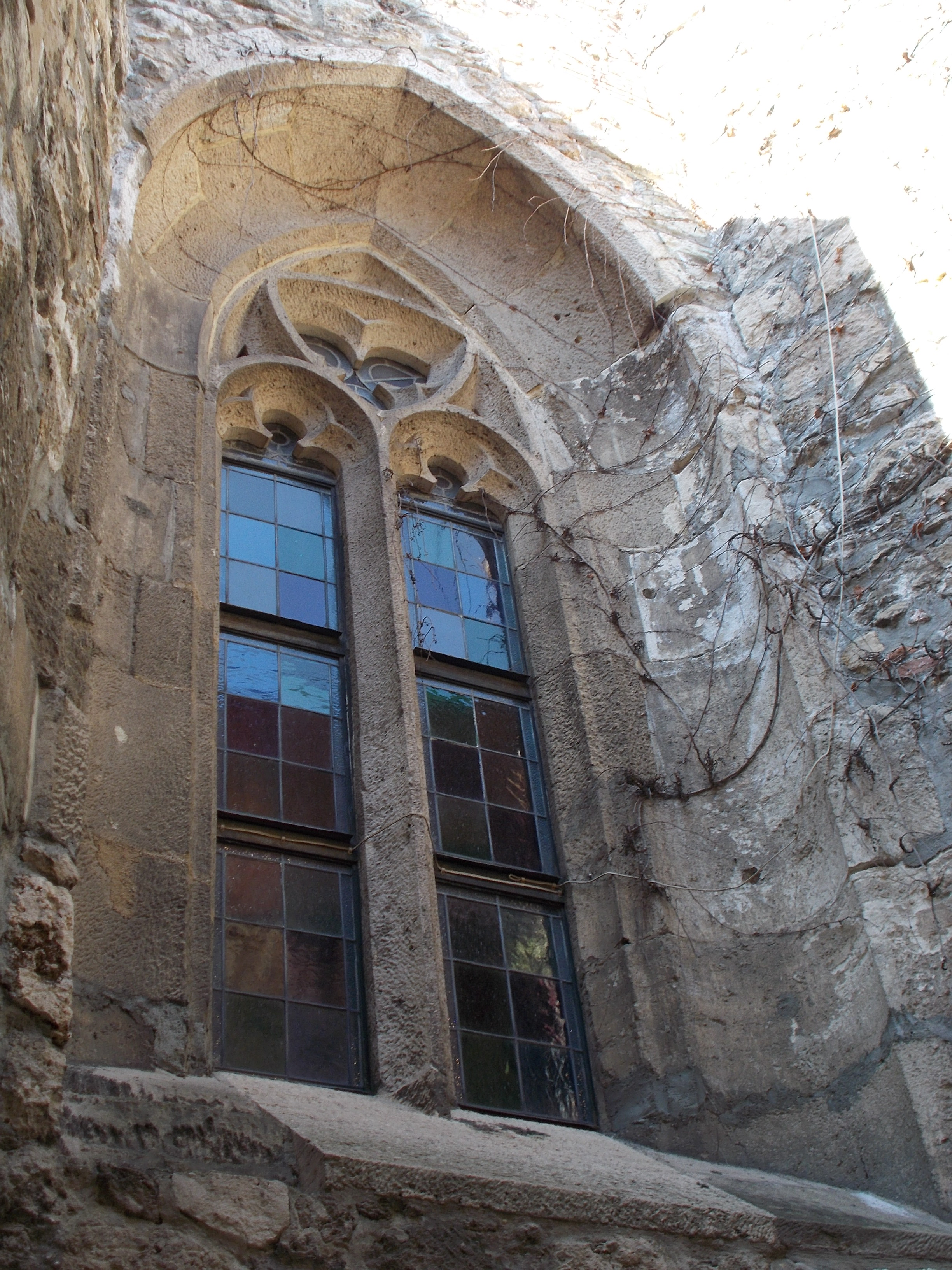 Castle Hill, Gothic Hall's window from outside. The Gothic Hall now part of the Budapest Historical Museum.